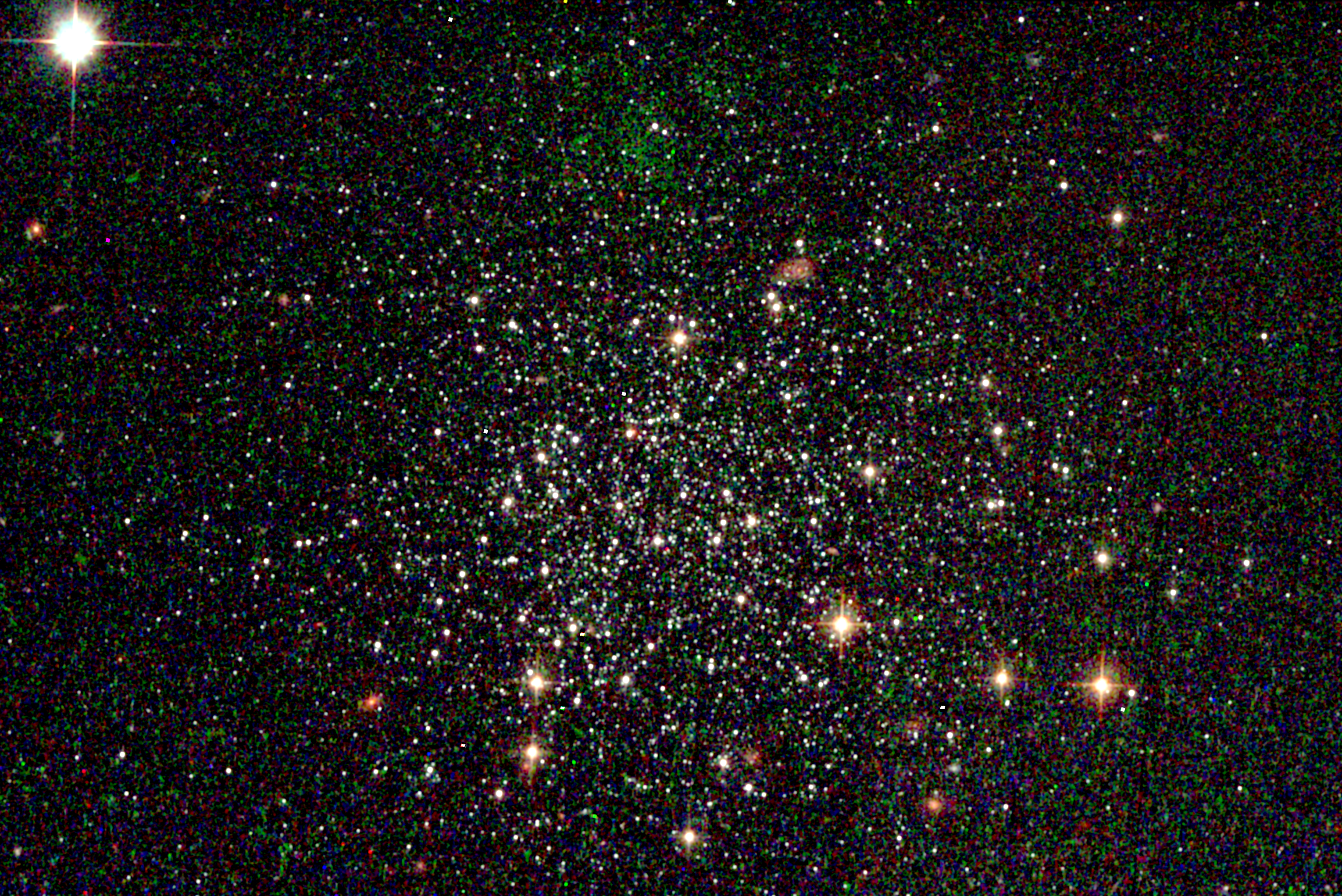 Color rendering is done by by Aladin-software (2000A&AS..143...33B.)